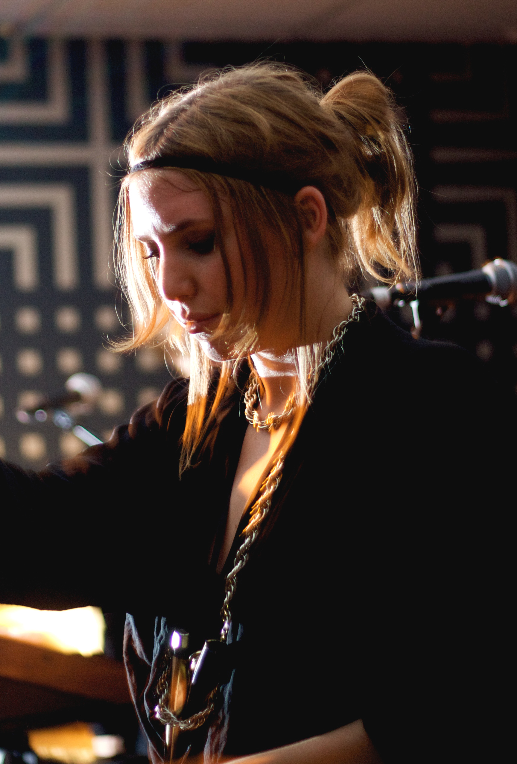 Lykke Li performing at Hugos, Slottsgatan 118 602 20 Norrköping.